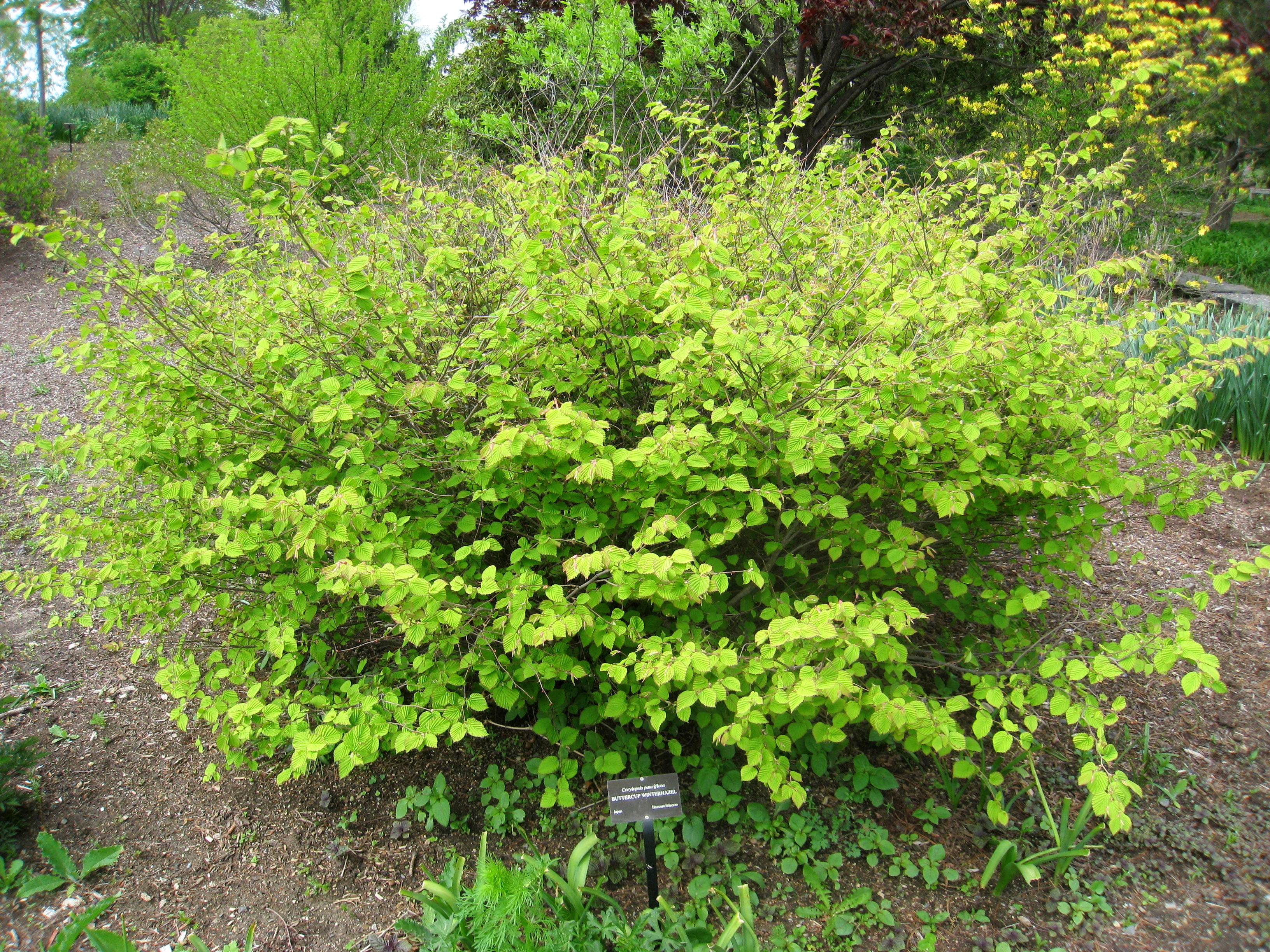 Corylopsis pauciflora - Tower Hill Botanic Garden, Boylston, Massachusetts, USA.